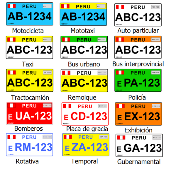 Peruvian Vehicle Registration Plates since January 1st, 2010